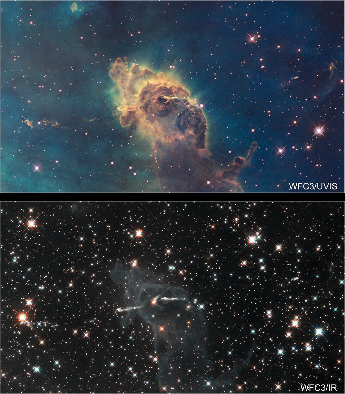 A huge pillar of star birth demonstrate how observations taken in visible and in infrared light by the NASA/ESA Hubble Space Telescope reveal dramatically different and complementary views of an object – the source says